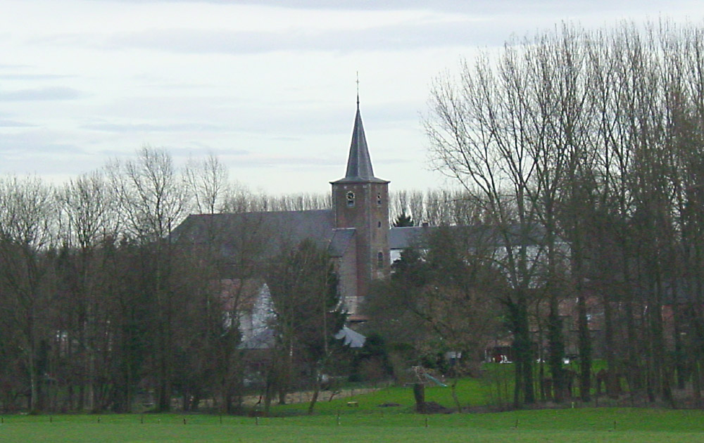 The Nil-Saint-Vincent Church in Walhain, Belgium. Photograph taken by myself on 4th March 2007. See [ L'église Saint-Vincent].